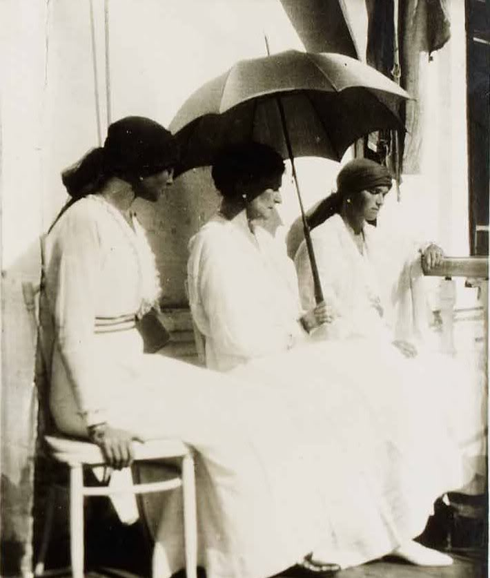 Alexandra of Russia with her daughters Olga and Tatiana on the balcony of the Governor’s Mansion in captivity at Tobolsk.